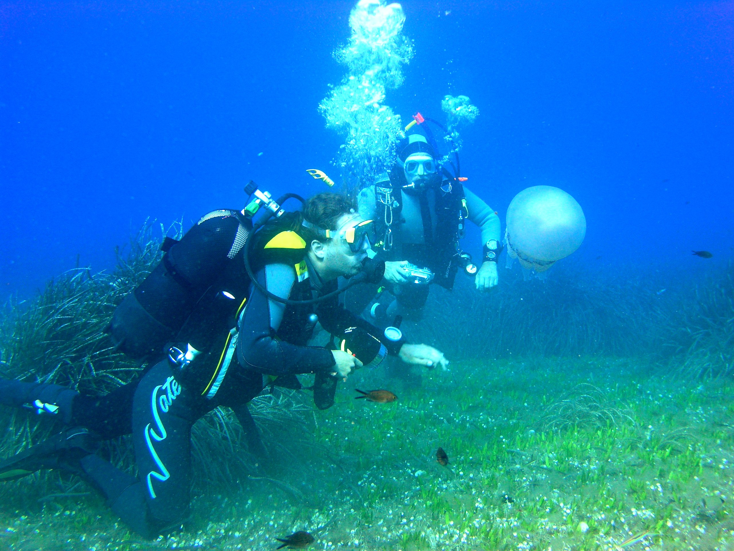 Scuba diving in Elba island, Italy